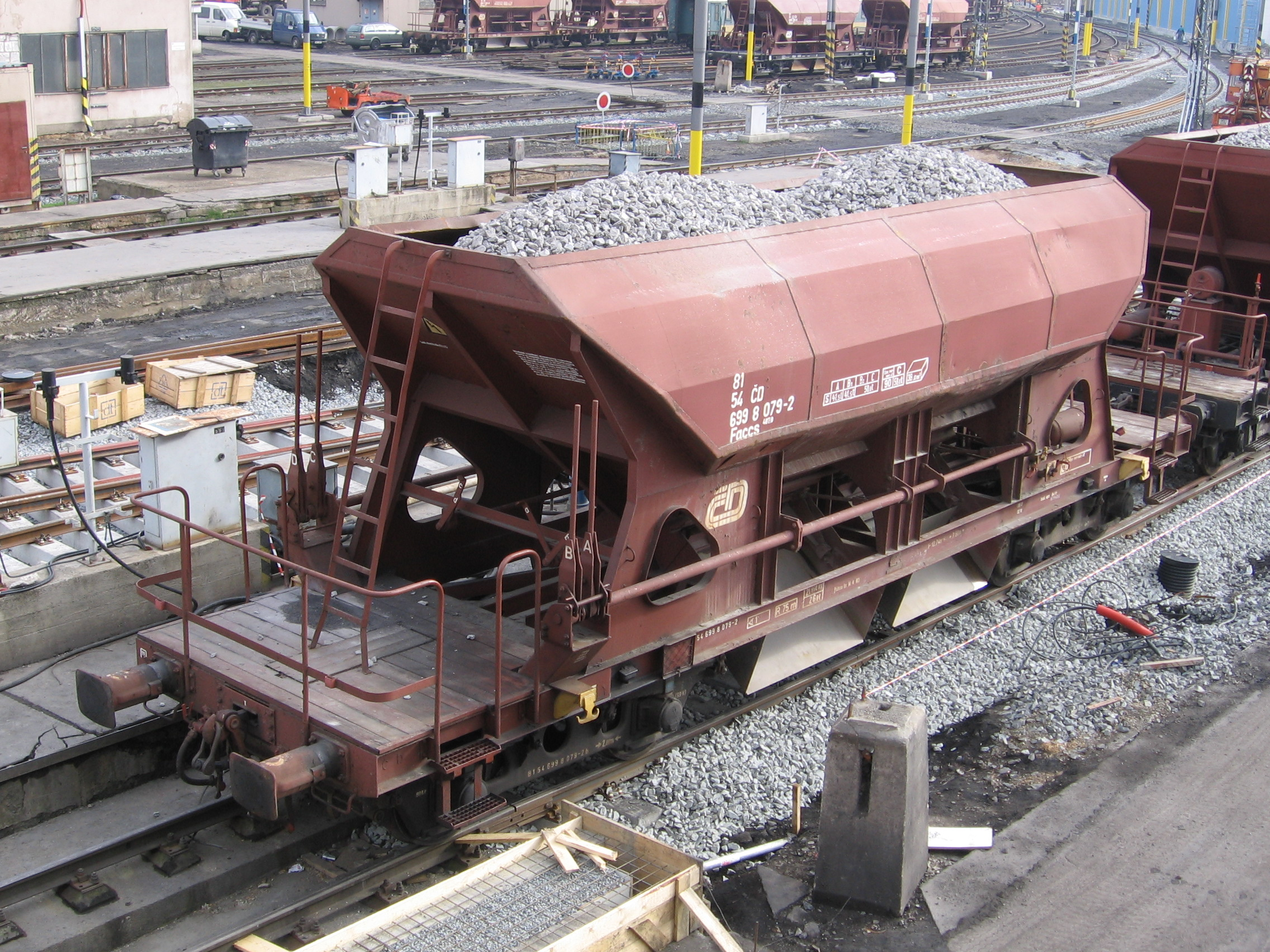 ČD waggon class Faccs/Sas - Praha ONJ